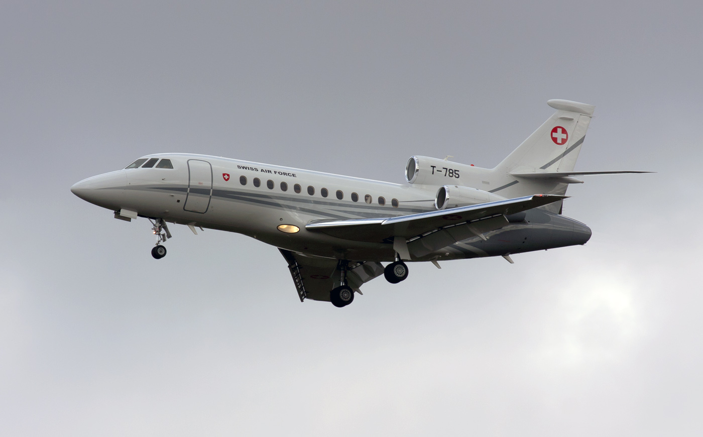 Swiss delegation for the NSS arriving at Schiphol in his new jet.